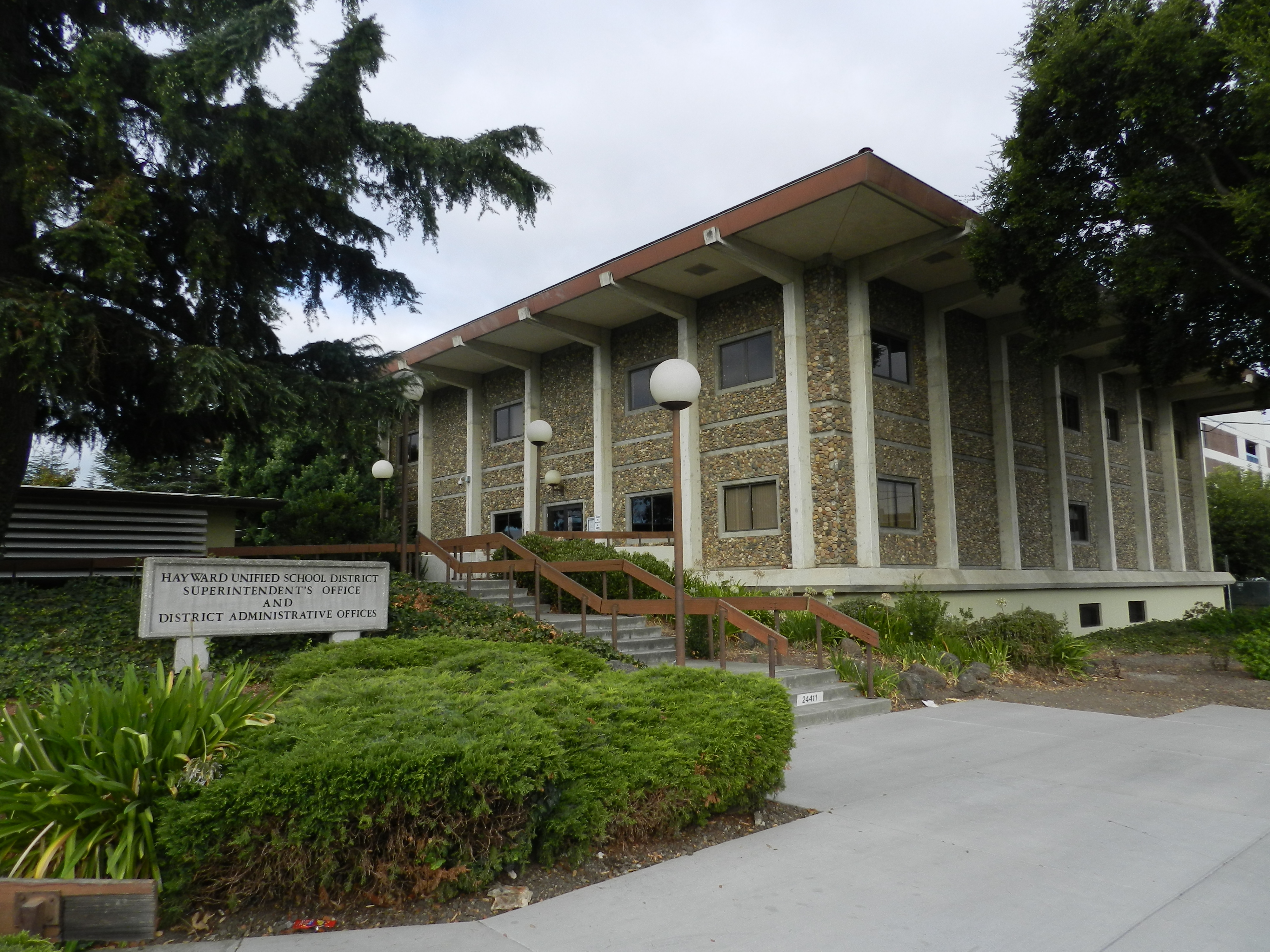 Hayward Unified School District superintendent's office and district administrative offices